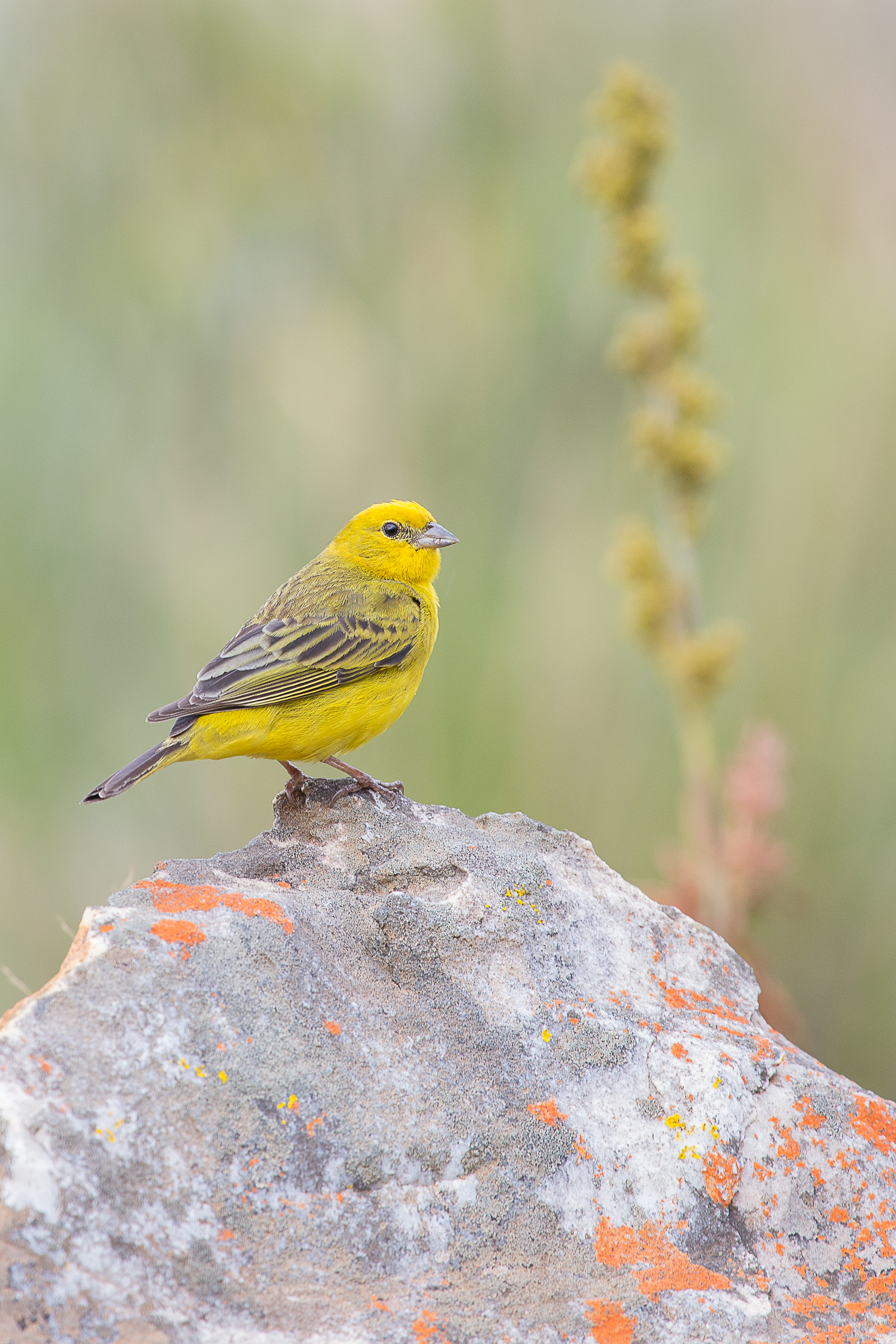 Male Cicalis citrina (Stripe-tailed Yellow-finch) at Serra do Cipó, Minas Gerais, Brazil